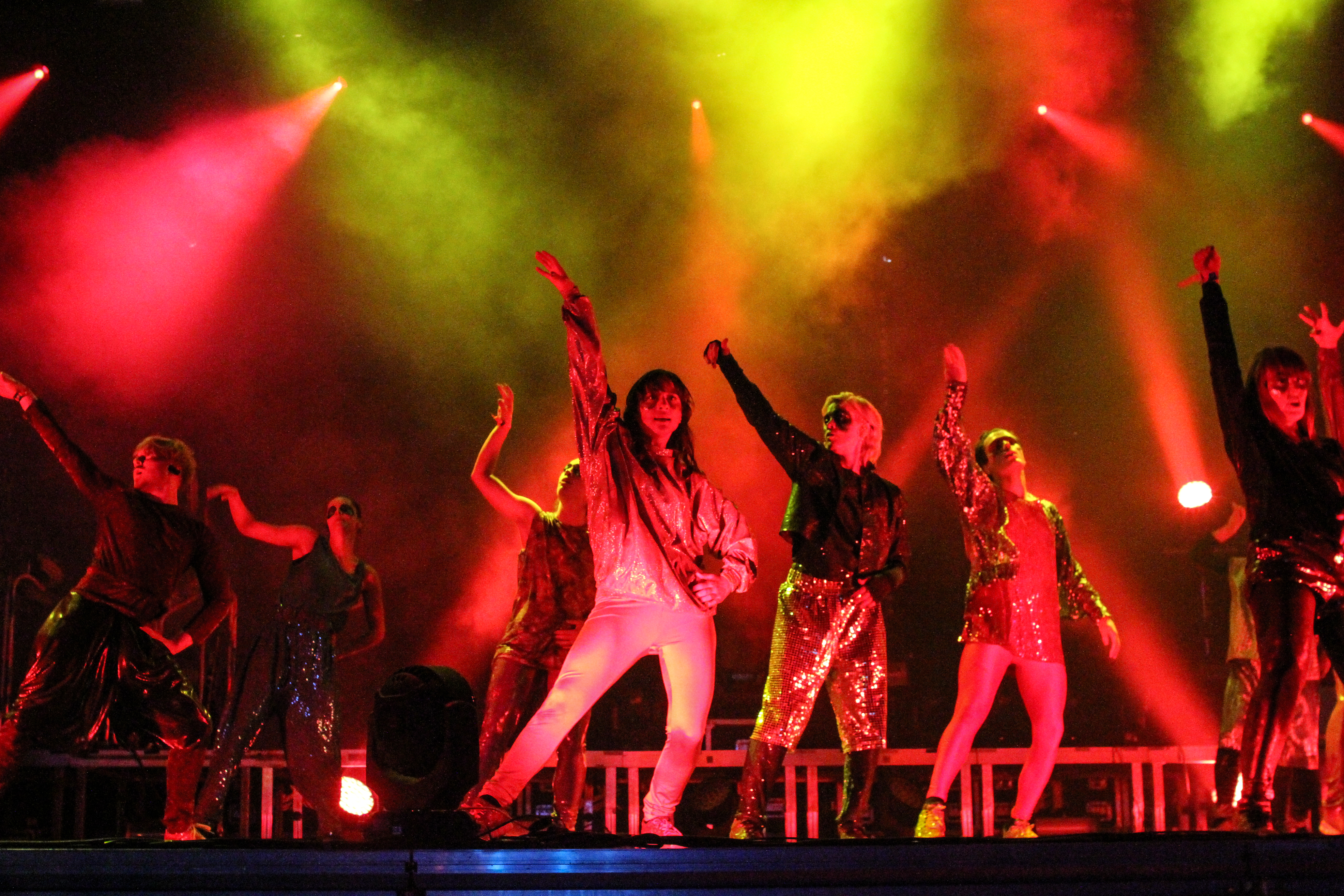 The Knife performing at Melt! Festival 2013